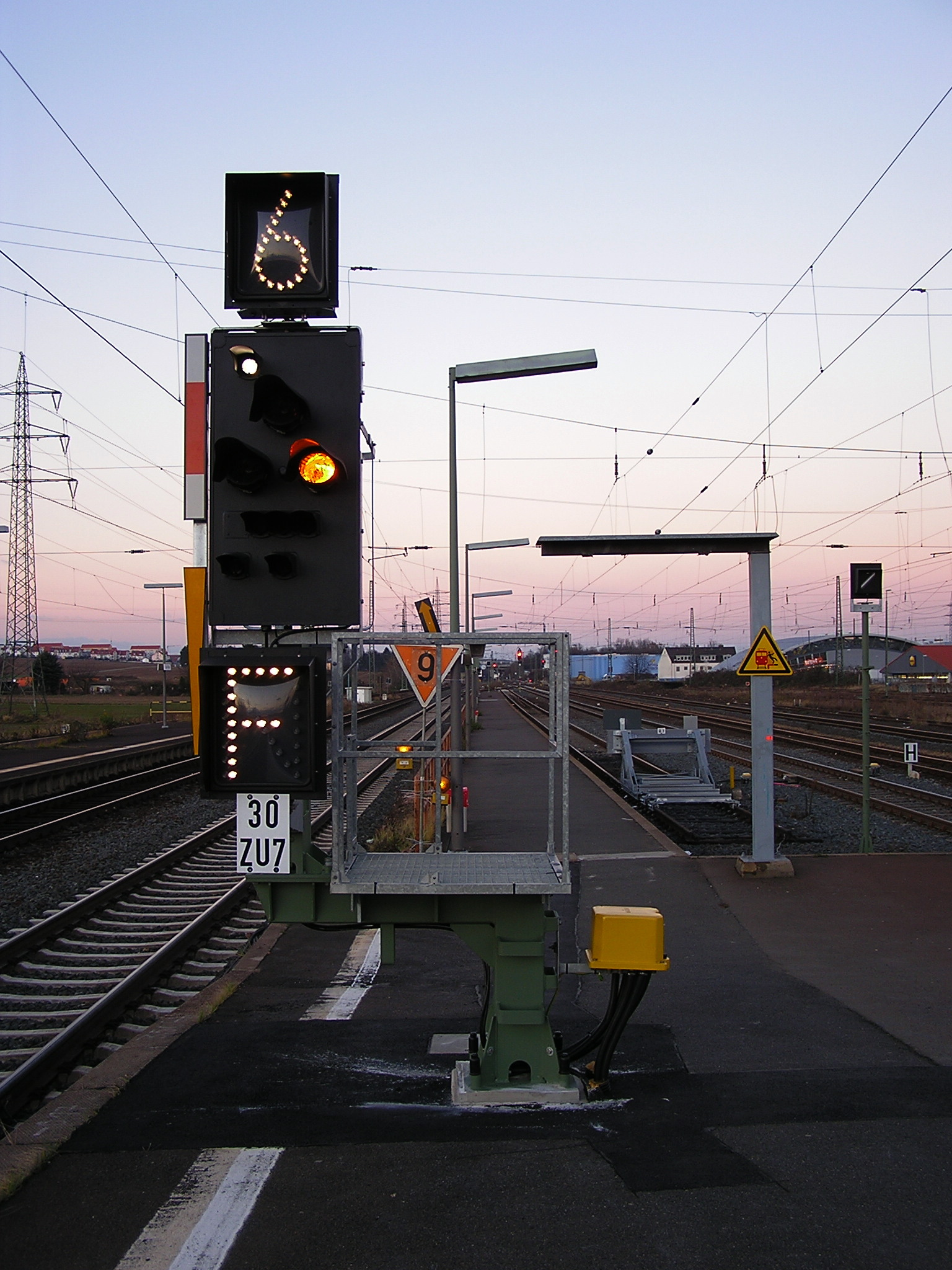 A german railway signal showing proceed with 60 kph, expect stop and the route leads to Friedberg.